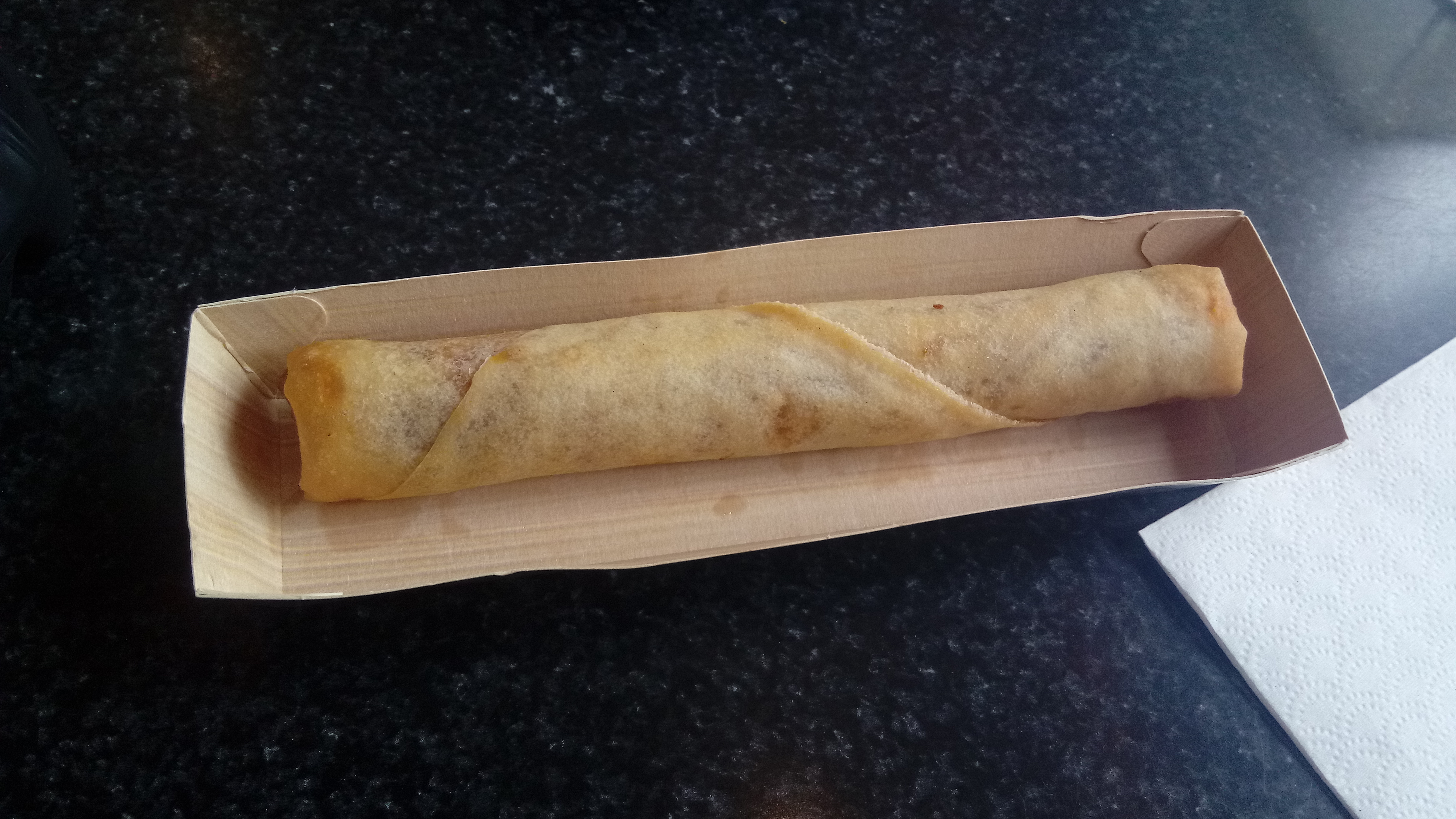 A loempidel inside of a snackbar in the Drenthic city of Emmen, the Netherlands.